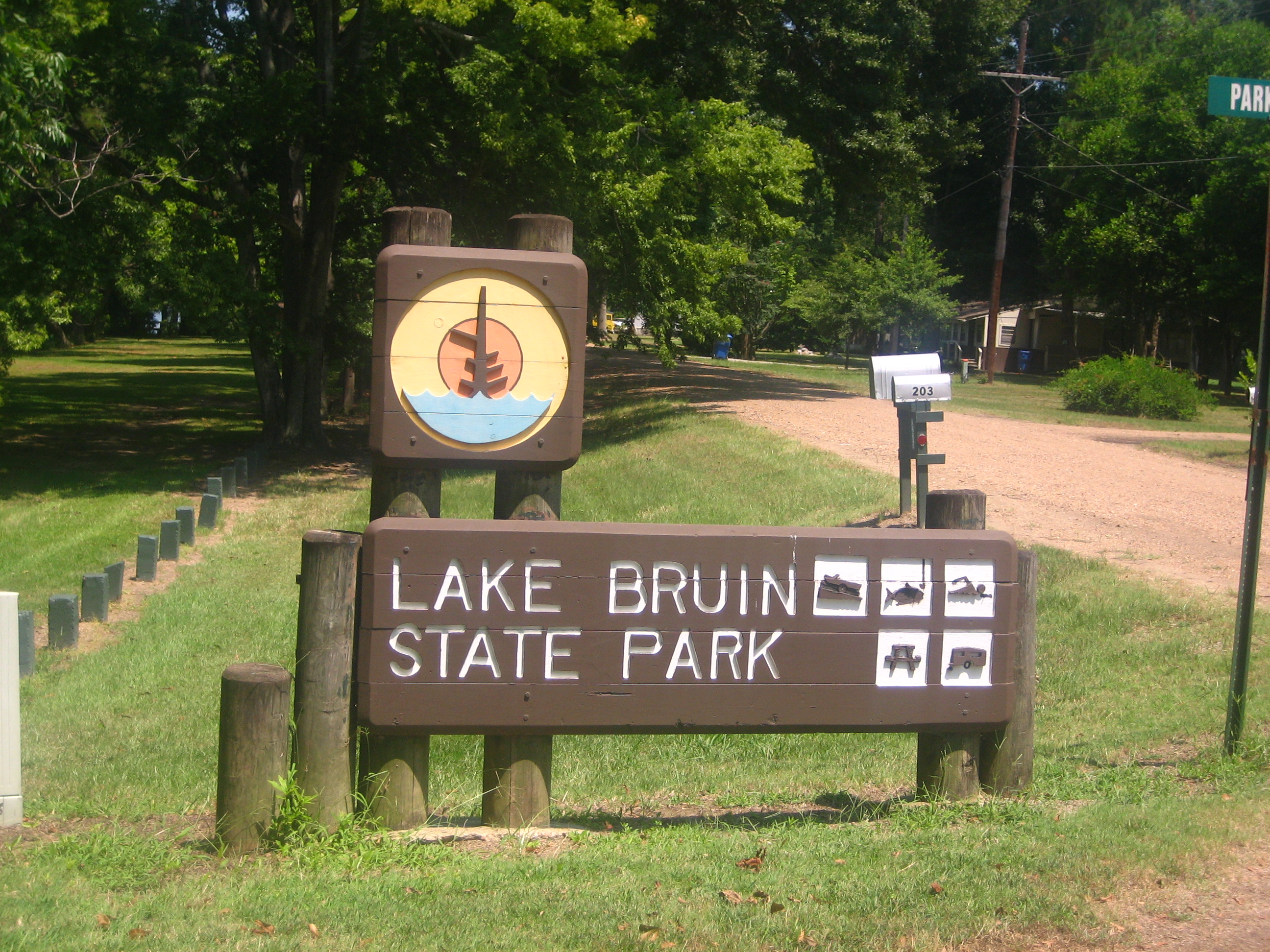 I took photo on Aug. 2, 2008.Billy Hathorn (talk) 01:25, 24 August 2008 (UTC)